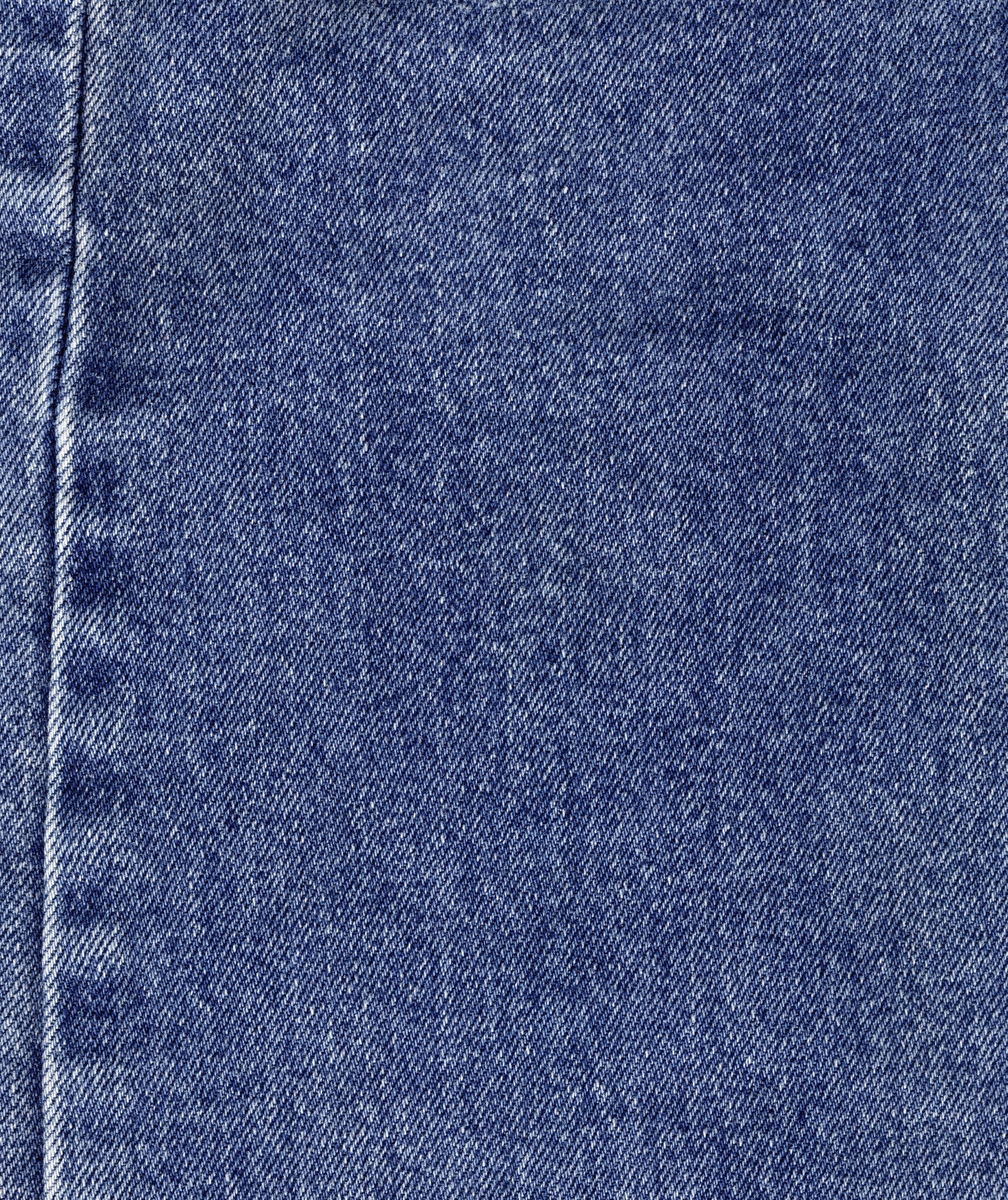 Texture of warn denim